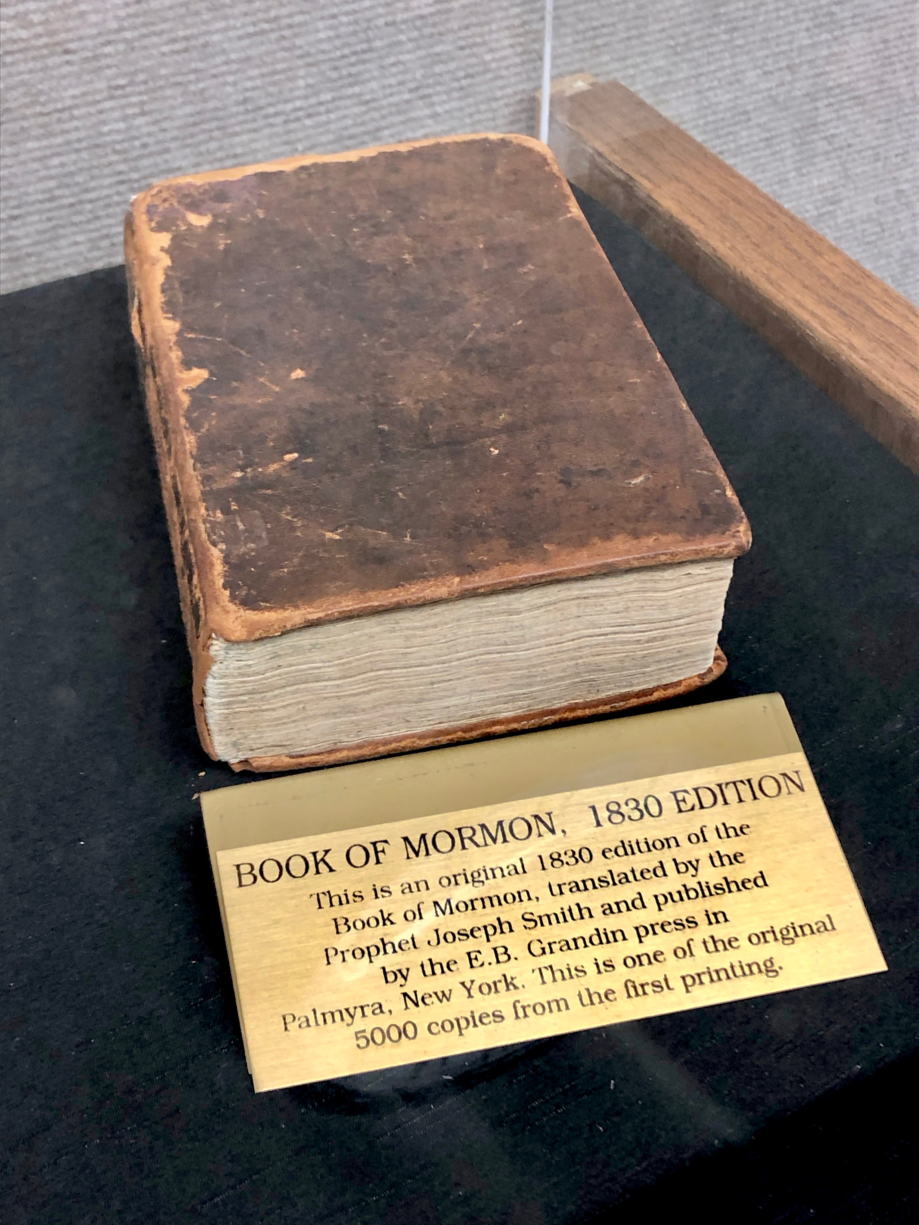 1830 edition of the Book of Mormon on display in the library of the Logan Institute of Religion